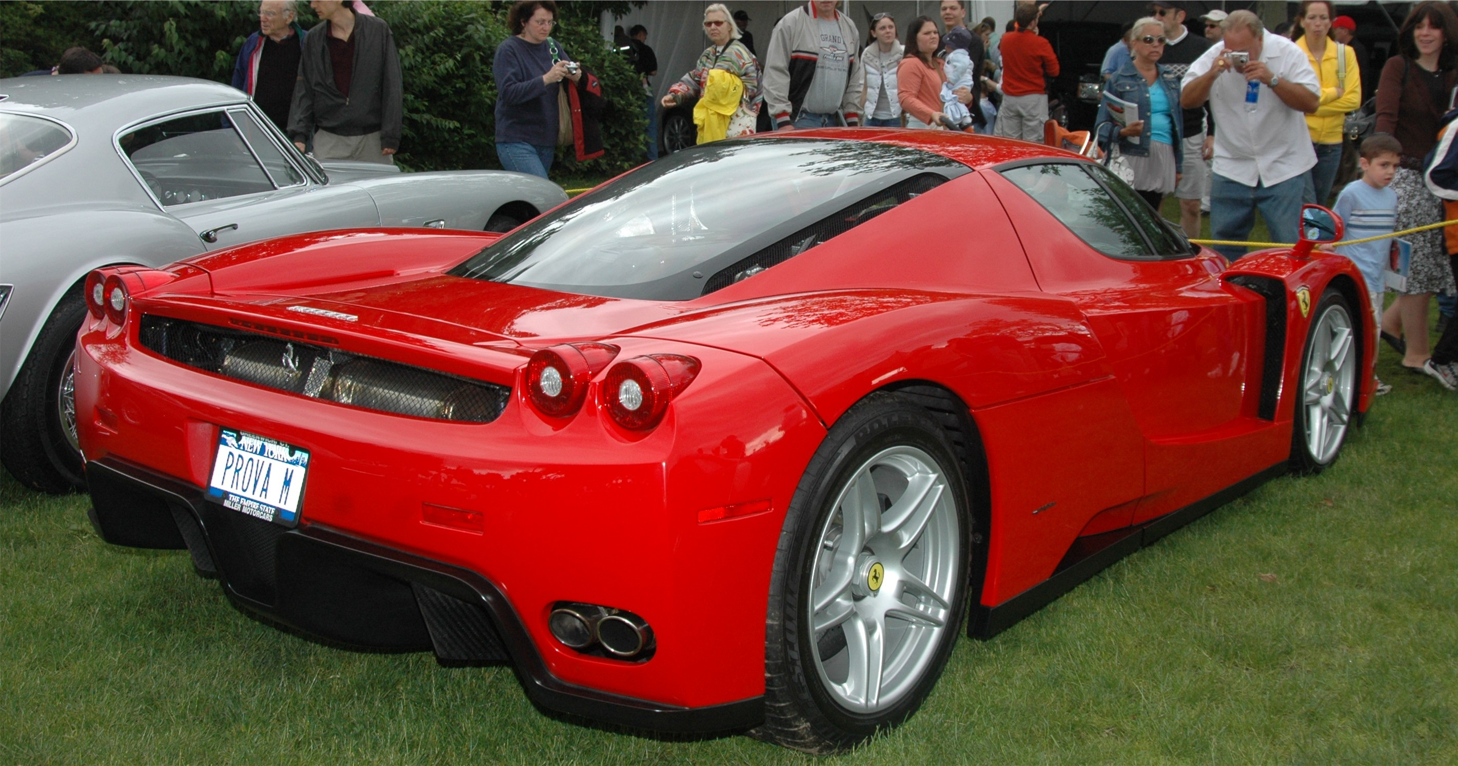 Ferrari Enzo Photographed by Jagvar at the Greenwich Concours d'Elegance in Greenwich, CT on June 4, 2006.